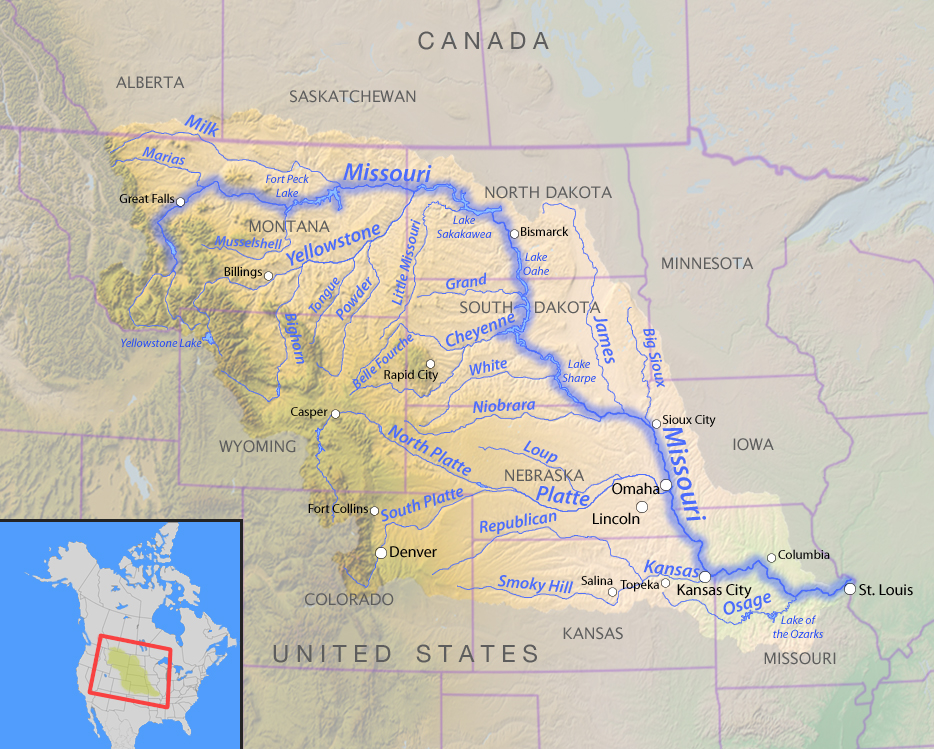 Map of the Missouri River watershed — with tributaries and states labelled.